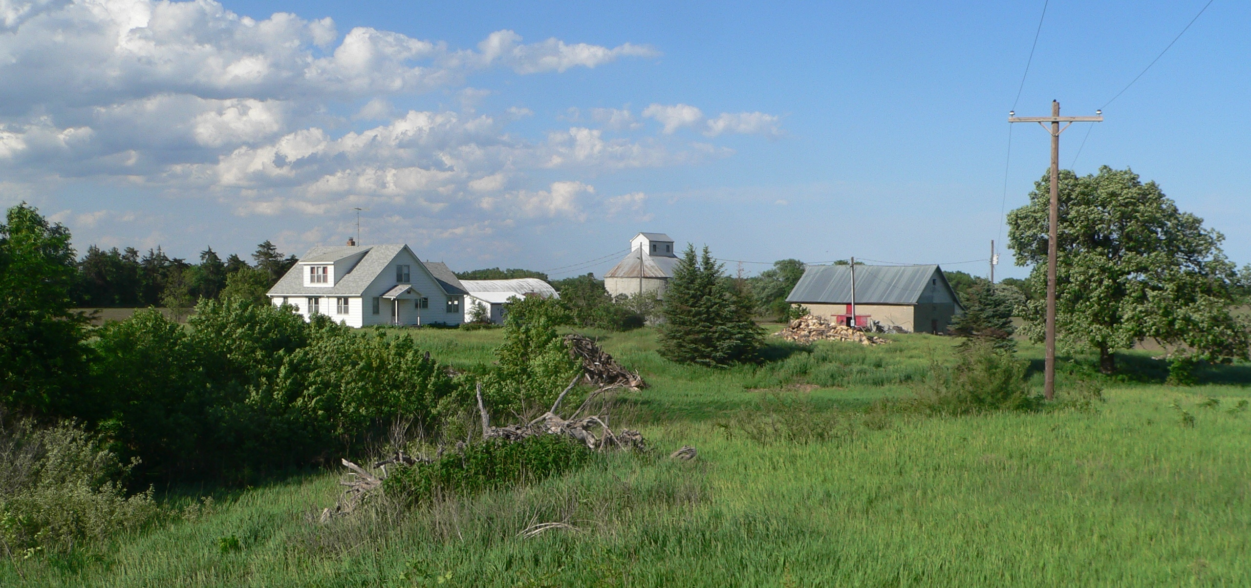 Frank Pisar farmstead, located about 2 1/2 miles south of Pleasant Hill in central Saline County, Nebraska. View is from the southwest. Note the pile of stone and wood rubble in front of the stone barn at right; this may represent the remains of an 1877 stone house.